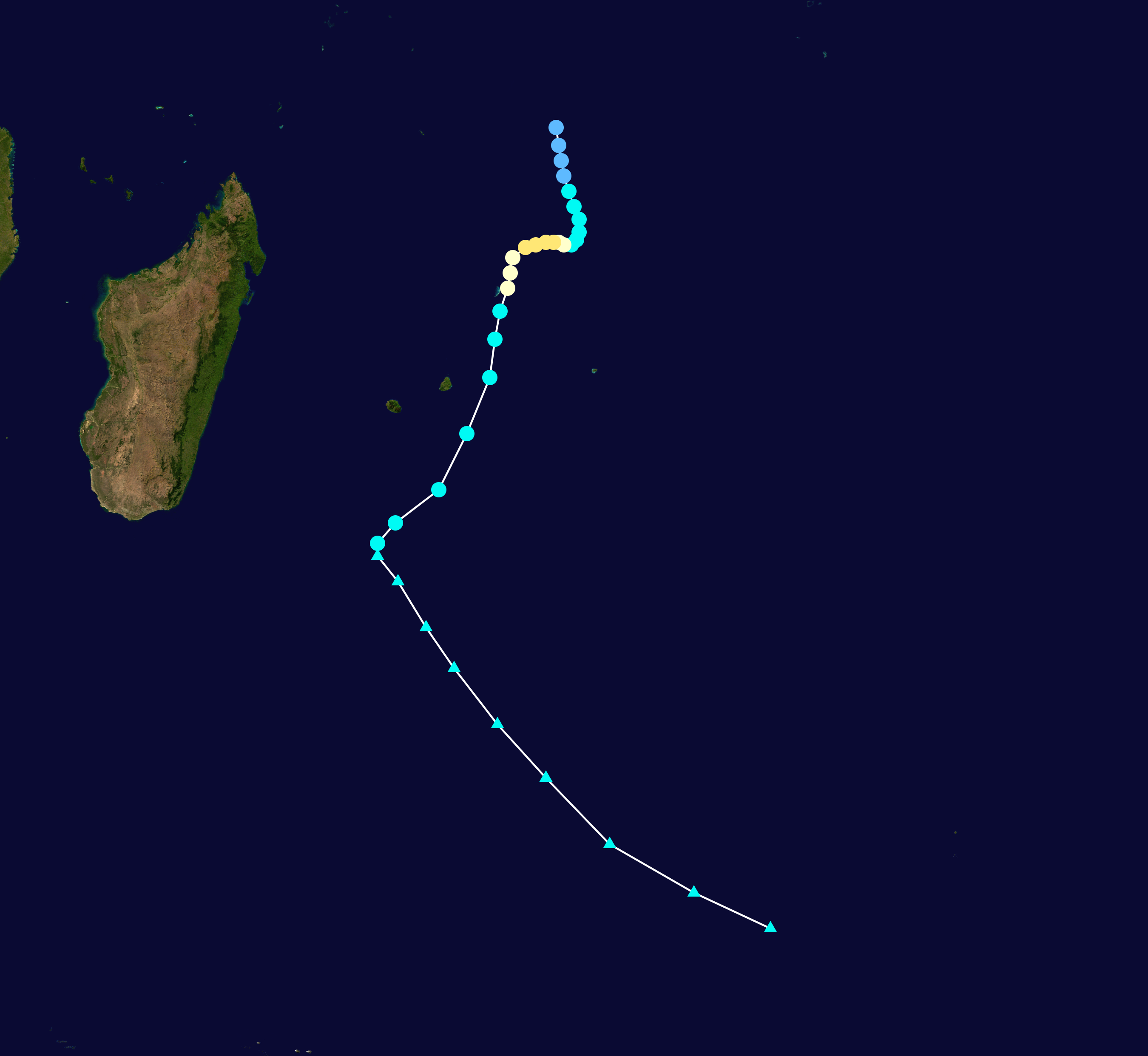 Track map of Tropical Cyclone Gula of the 2007-08 South West Indian Ocean cyclone season. The points show the location of the storm at 6-hour intervals. The colour represents the storm's maximum sustained wind speeds as classified in the Saffir–Simpson scale (see below), and the shape of the data points represent the nature of the storm, according to the legend below. Saffir–Simpson scale Tropical depression≤38 mph≤62 km/h Category 3111–129 mph178–208 km/h Tropical storm39–73 mph63–118 km/h Category 4130–156 mph209–251 km/h Category 174–95 mph119–153 km/h Category 5≥157 mph≥252 km/h Category 296–110 mph154–177 km/h Unknown Storm type Tropical cyclone Subtropical cyclone Extratropical cyclone / Remnant low / Tropical disturbance / Monsoon depression